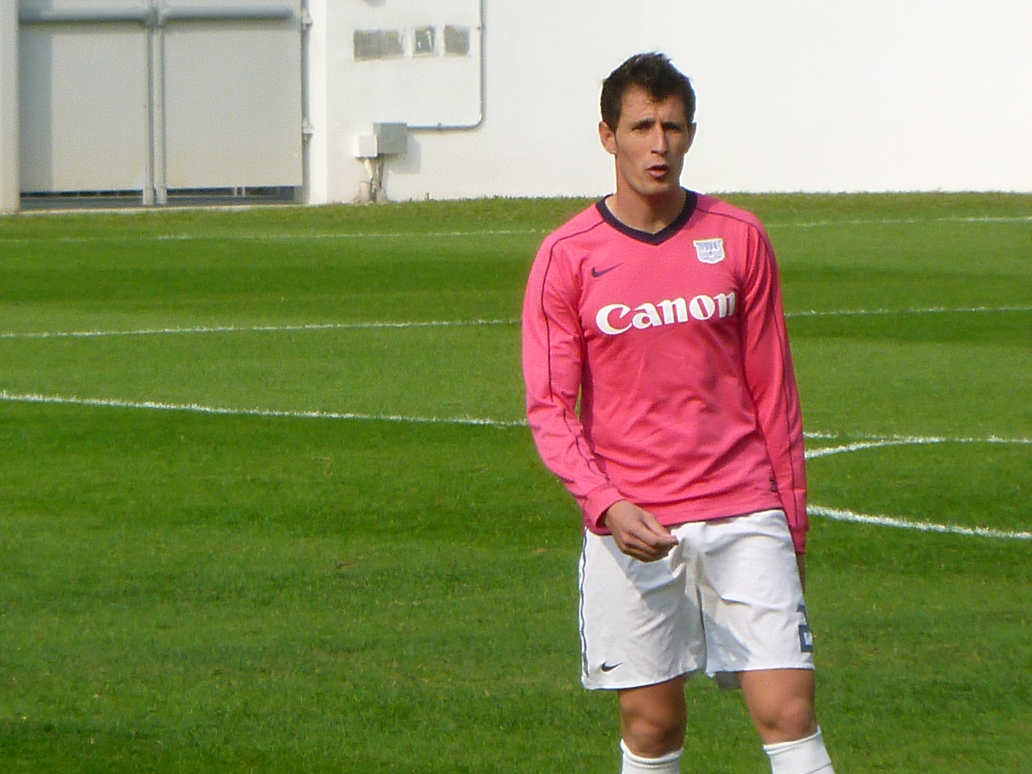 Fernando Recio (8 Jan 2012 Hong Kong First Division League, Rangers vs Kitchee, Mong Kok Stadium)